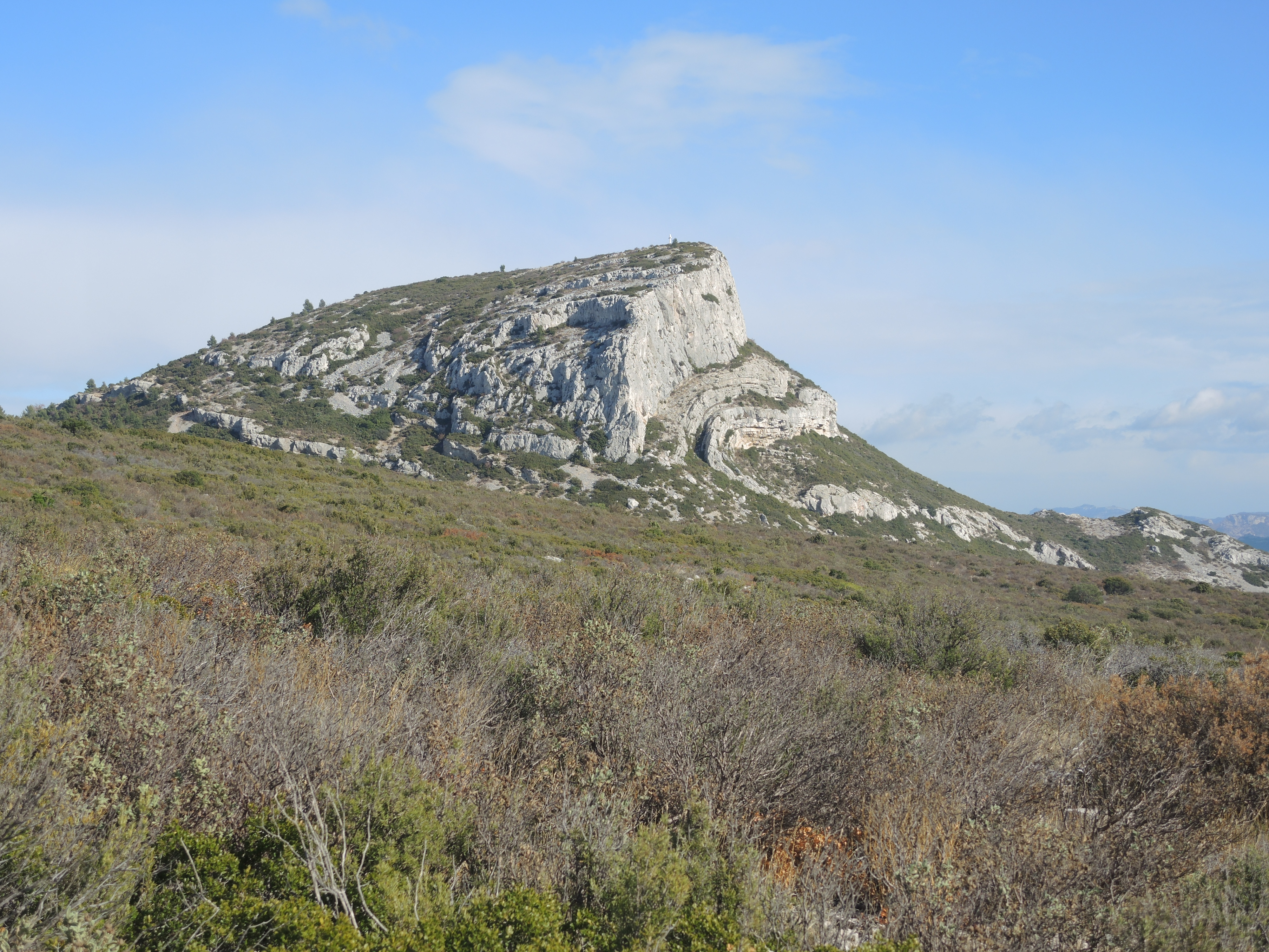 The peak of the Garlaban, seen from the west from a distance of about 1 km